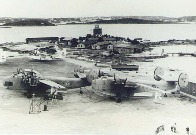 Flying boats of RAF Transport (the two PB2Y Coronado aircraft) and Ferry Commands on the tarmac at RAF Darrell's Island during the Second World War.